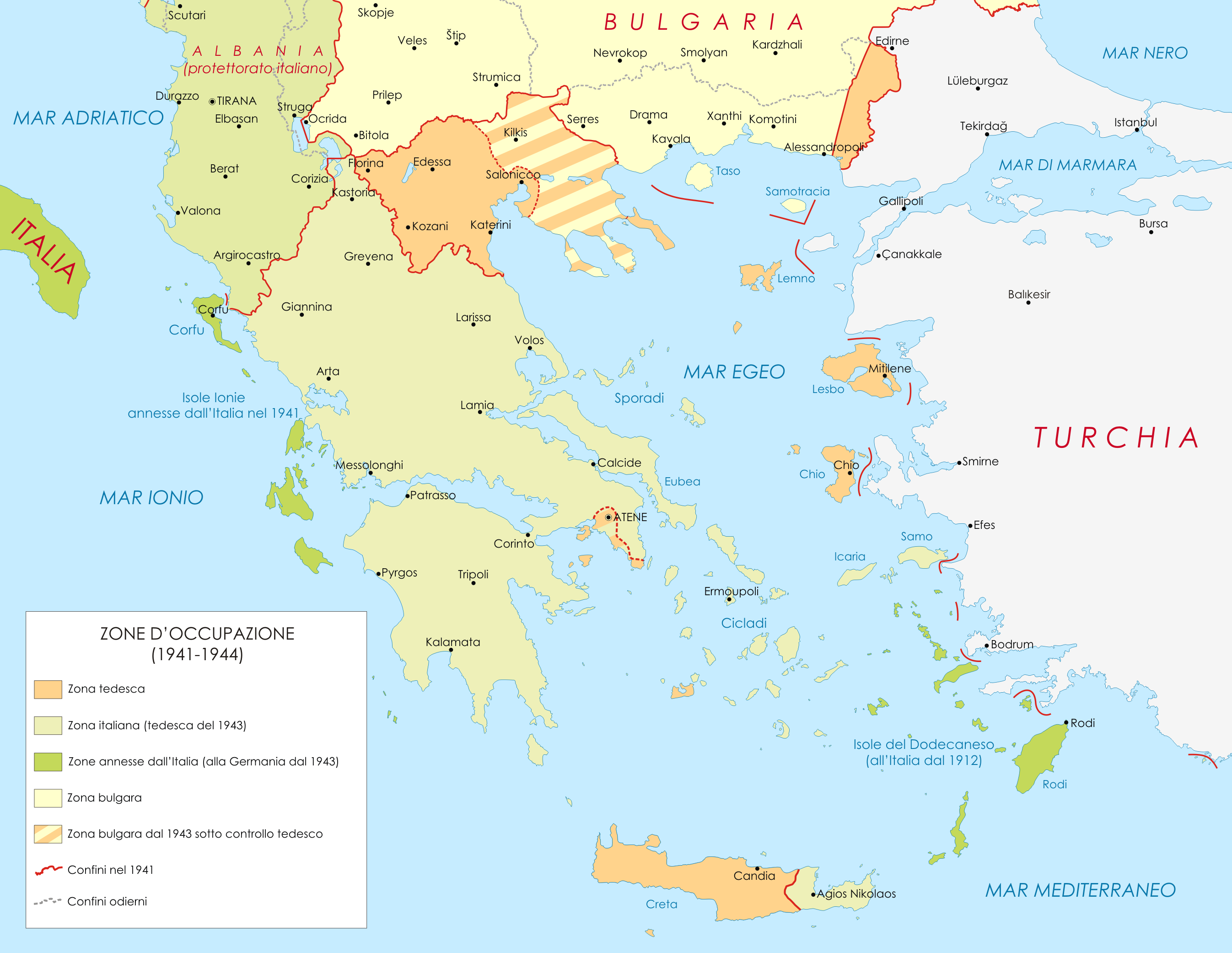 Map of Greece during WWII